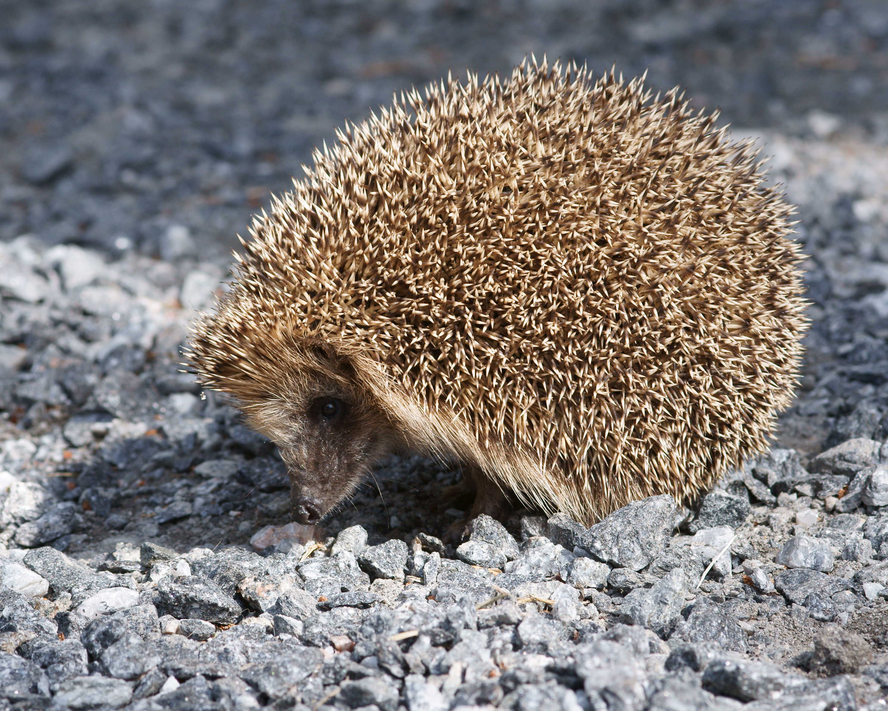 A West European Hedgehog (Erinaceus europaeus) in Pori, Finland.